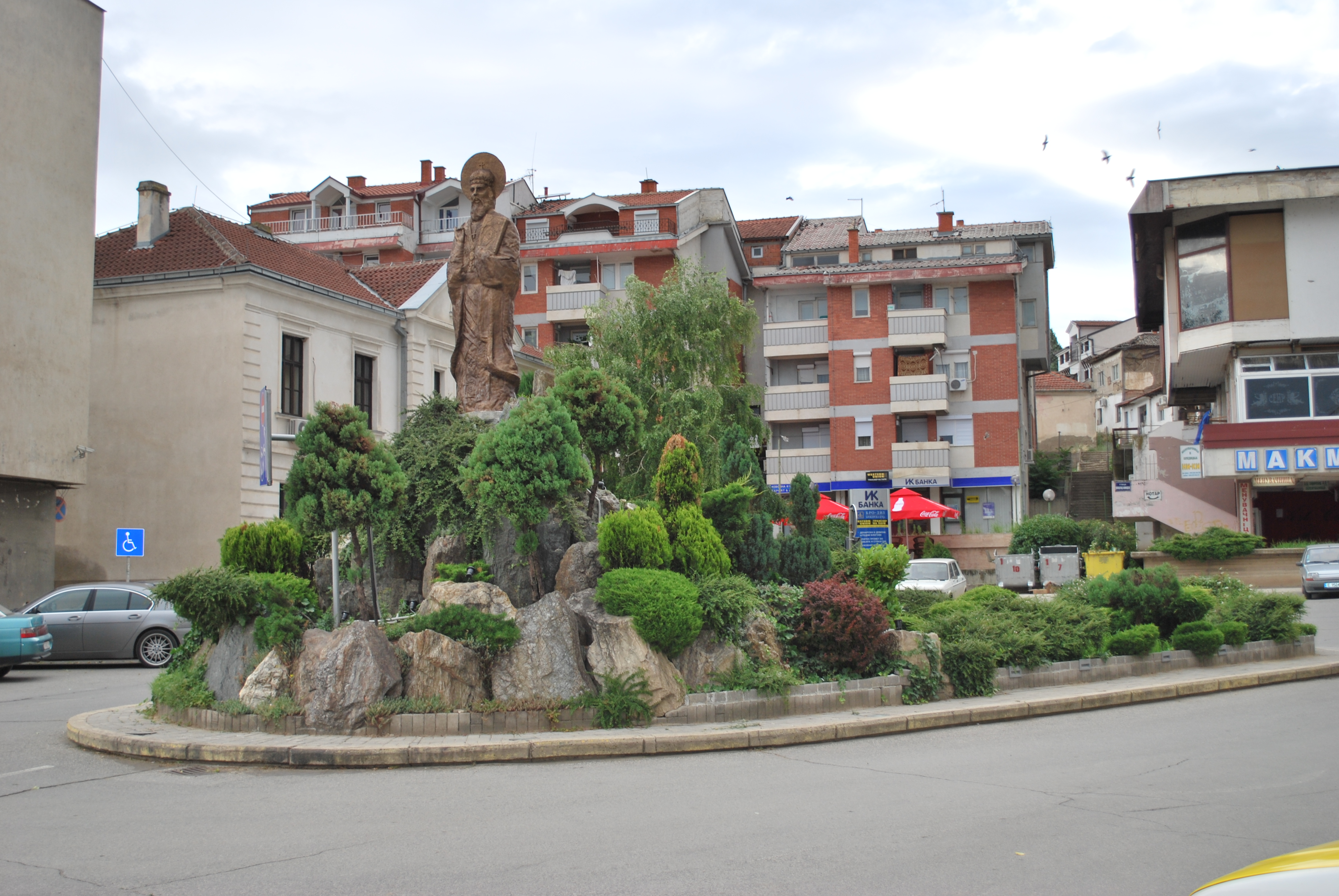 ISveti Nikole, Macedonia